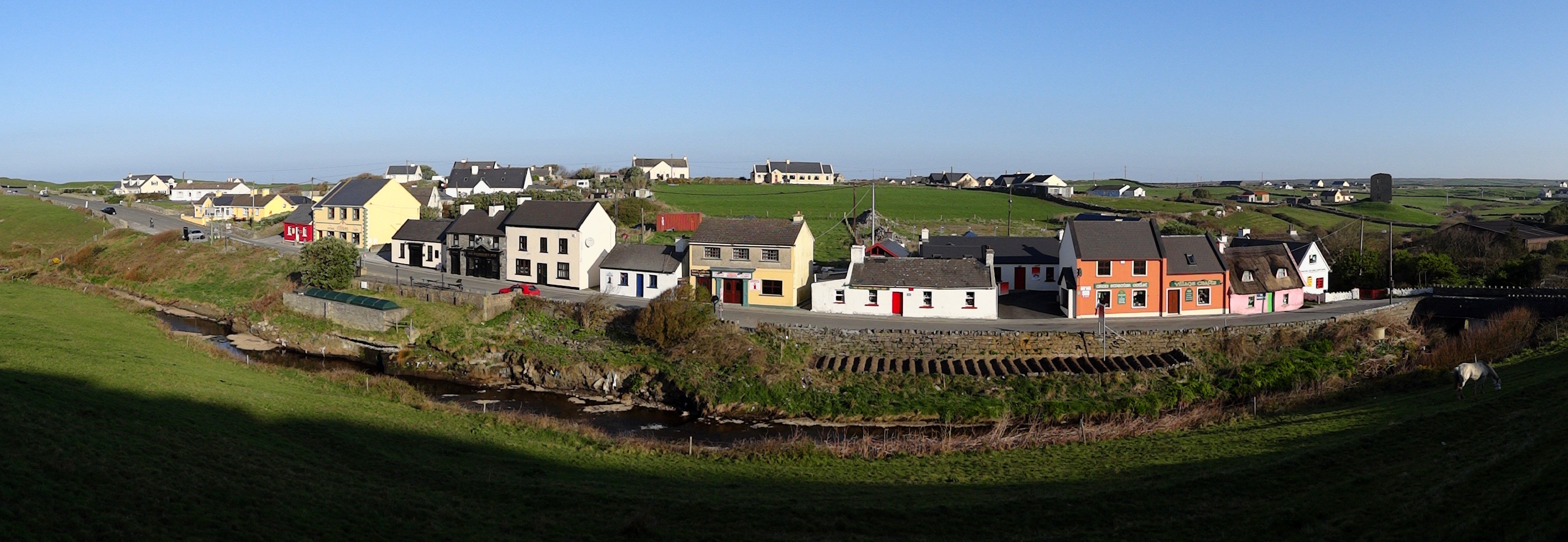 Fisher Street in Doolin early in the morning.